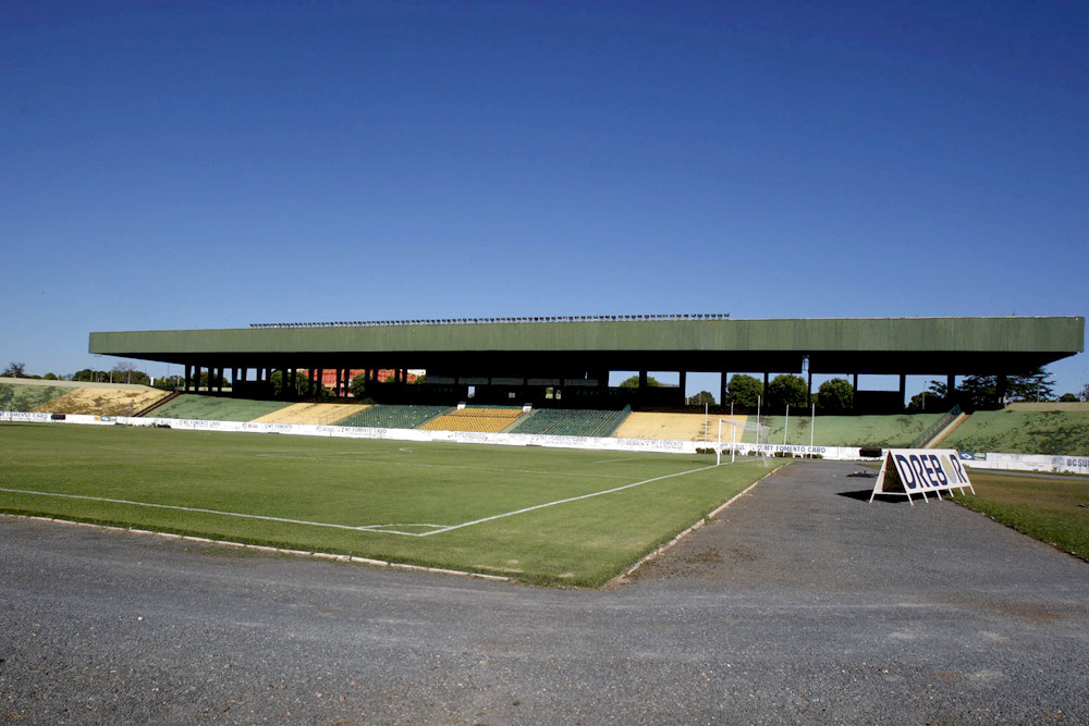 The Governador José Fragelli Stadium ("Verdão") on launch day of the demolition of the stadium 8 August 2009